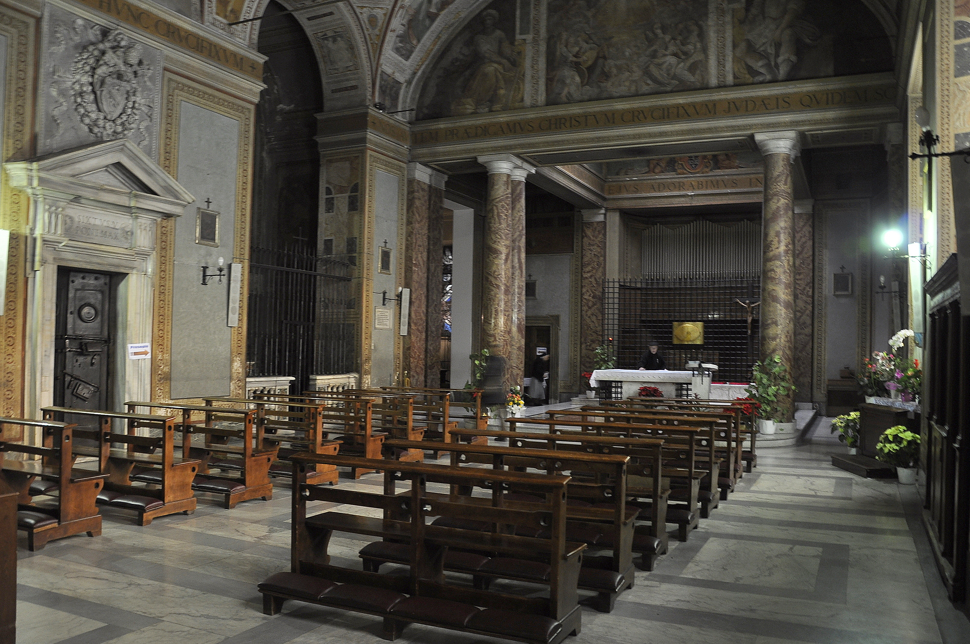 Sancta Sanctorum (